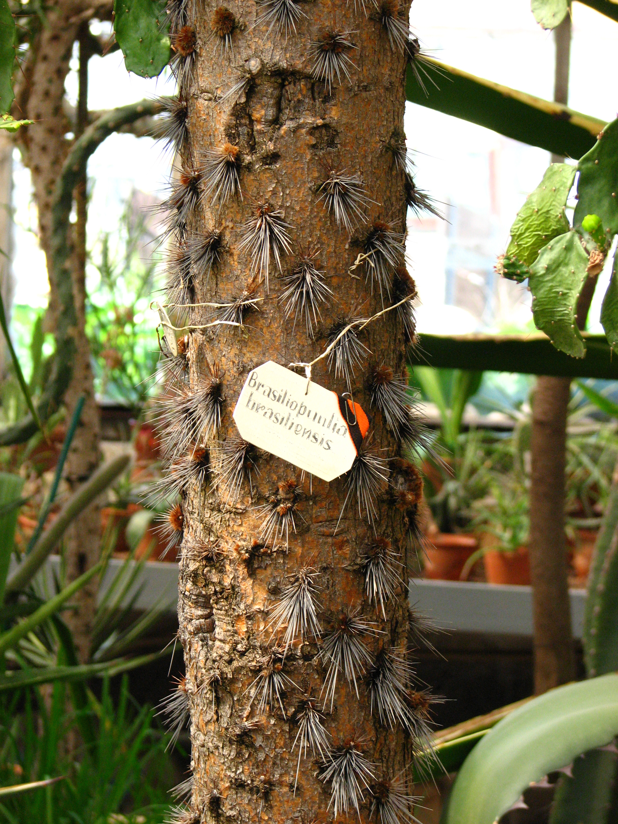 Greenhouses of the Botanical garden (Saint Petersburg).